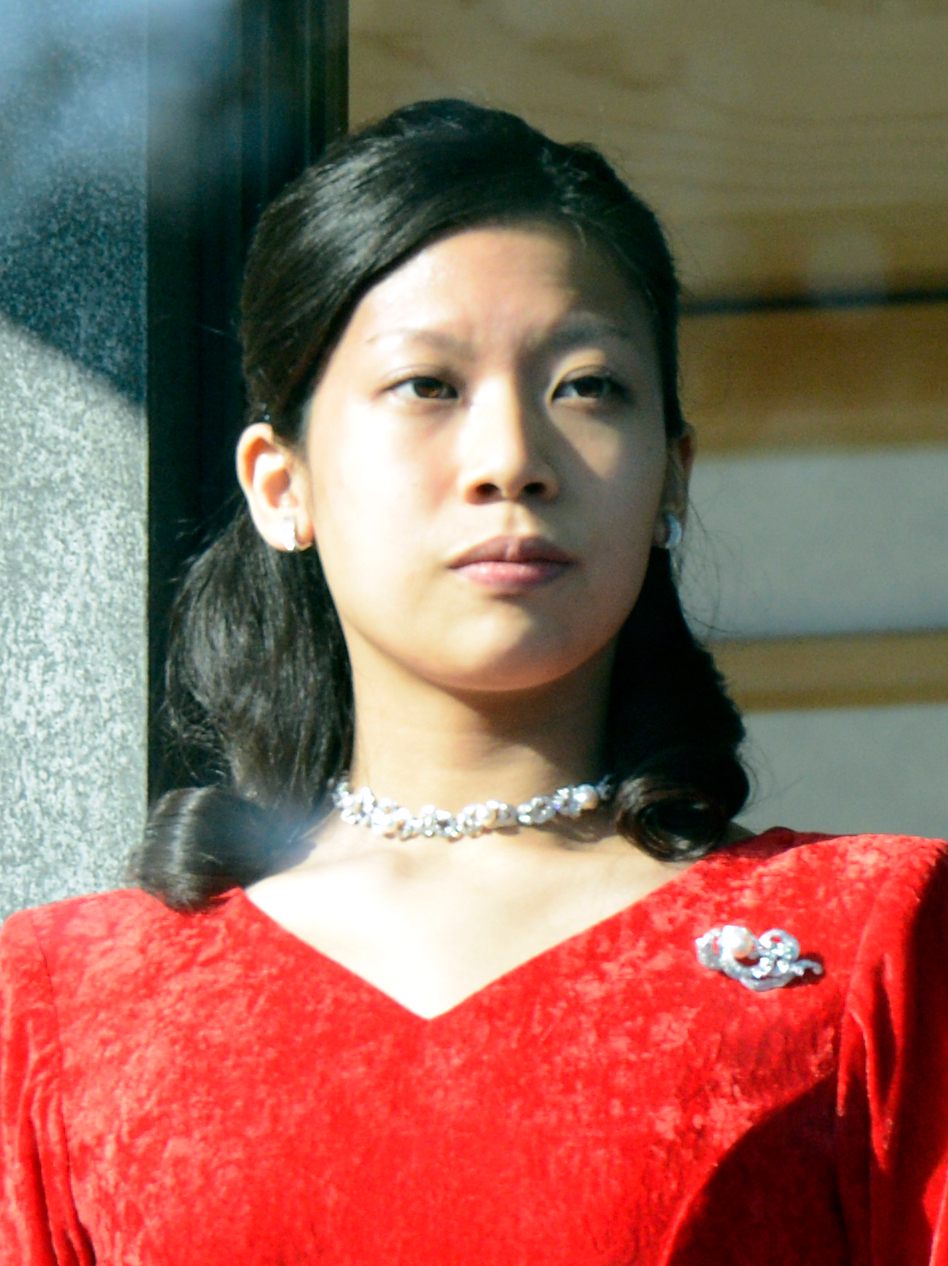 Princess Noriko appeared the "Visit of the General Public to the Palace for the New Year Greeting" at the Tokyo Imperial Palace in Chiyoda Ward, Tōkyō Metropolis on January 2, 2013.